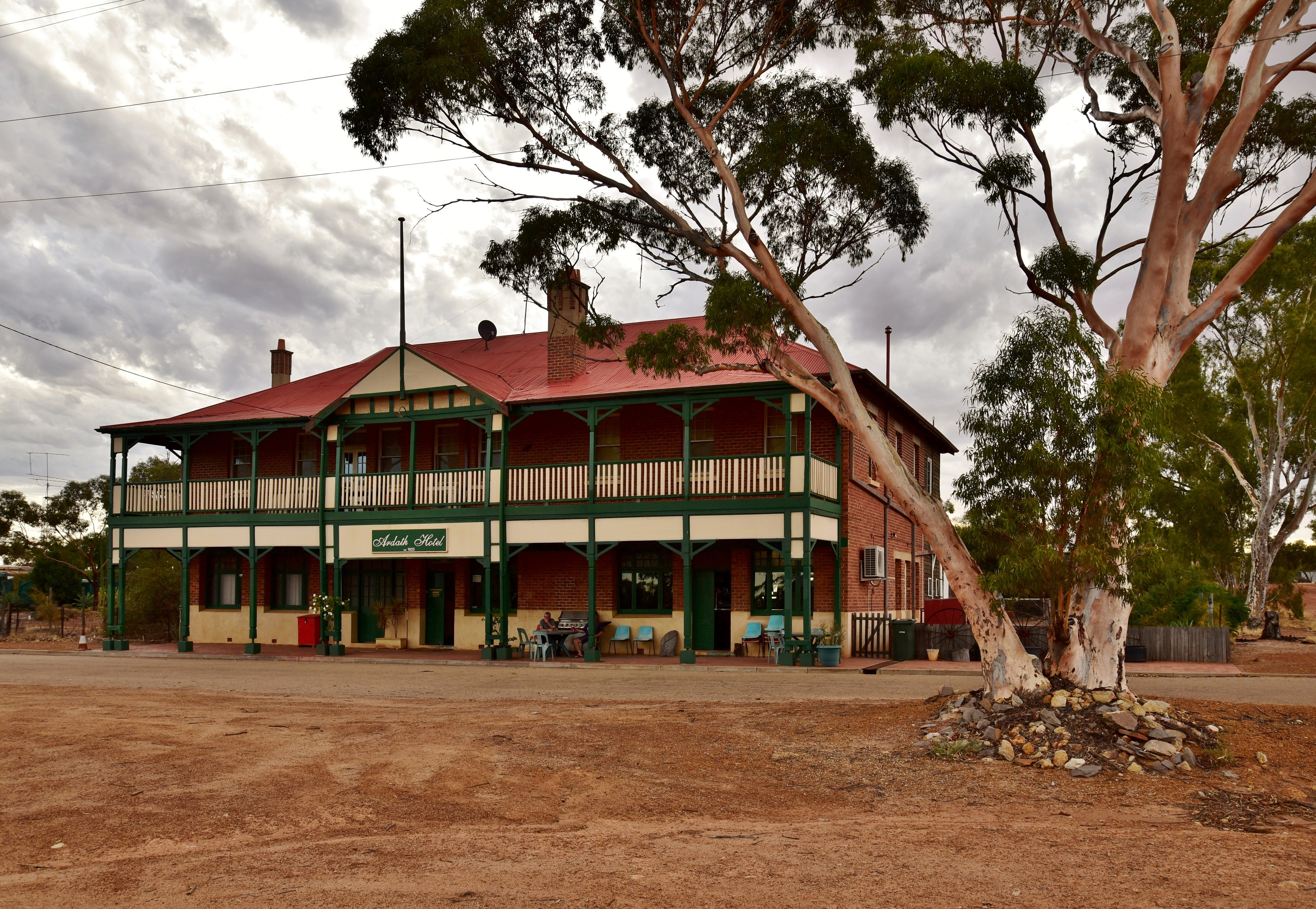 View of the Ardath Hotel, Ardath, Western Australia